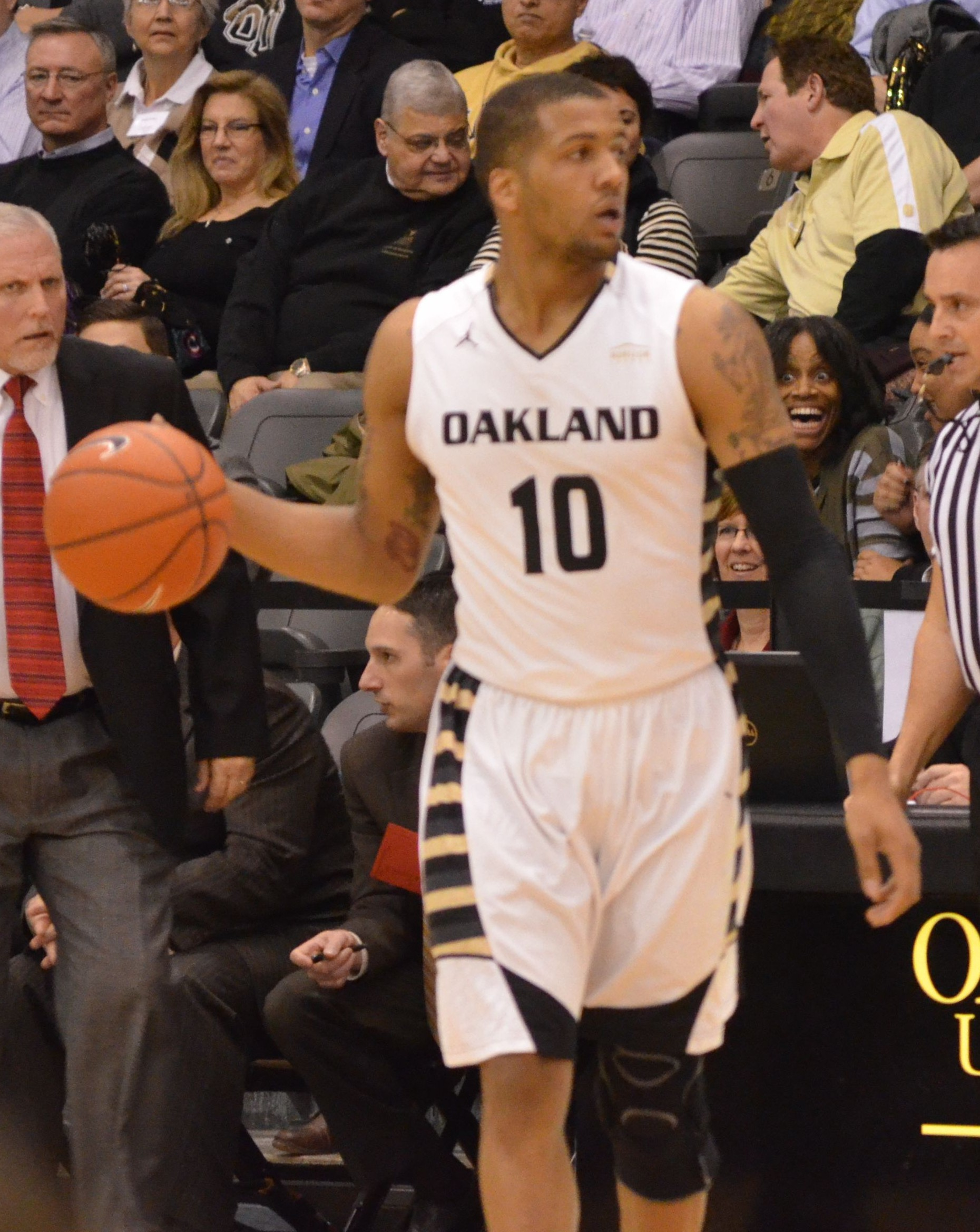 Duke Mondy, Oakland University basketball player, in a 2014 game against Youngstown State University